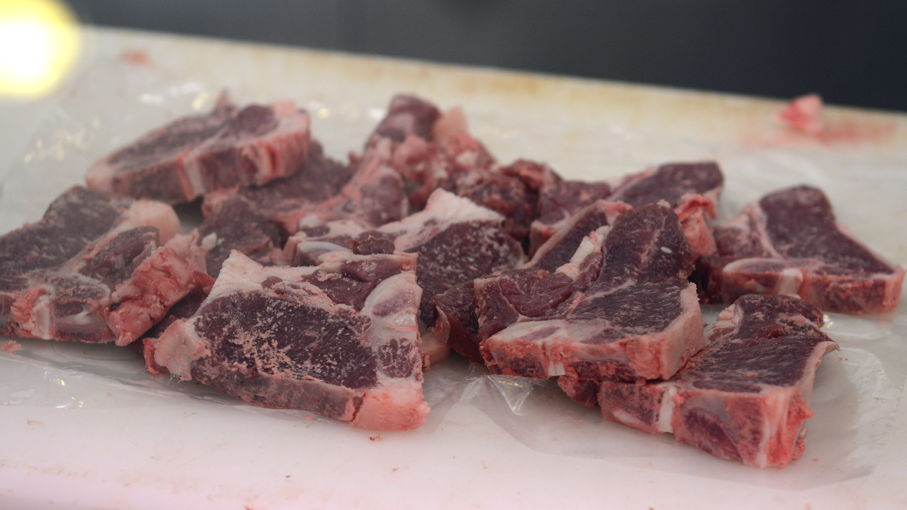 Lamb chops at the butcher's shop